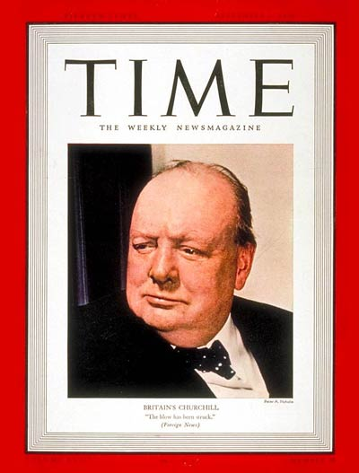 Winston Churchill on Time magazine.